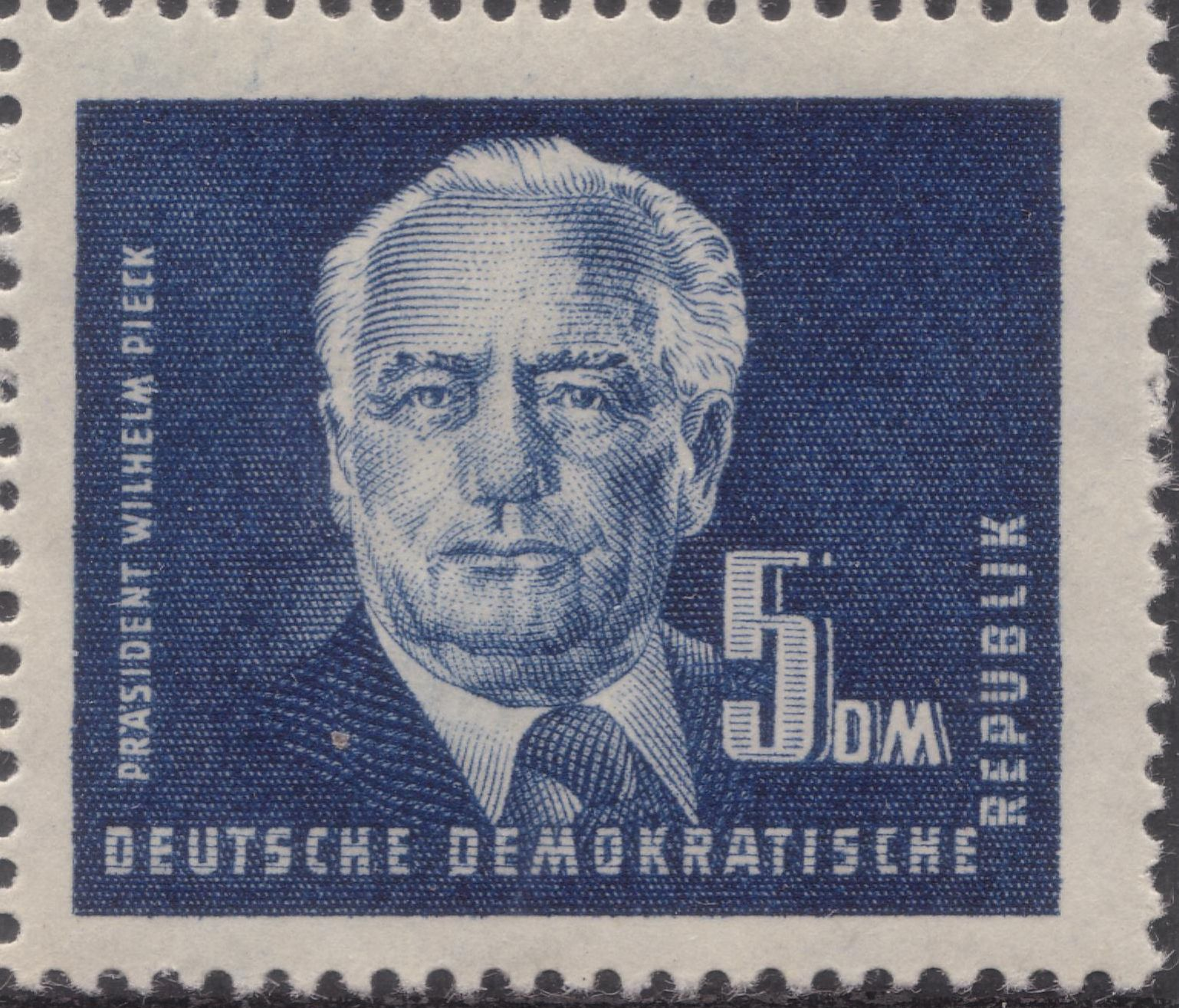 Stamp series President Wilhelm Pieck Graphic designer: Fred Gravenhorst Ausgabepreis: 5 DM First Day of Issue / Erstausgabetag: 3. Januar 1950 Michel-Katalog-Nr: 272